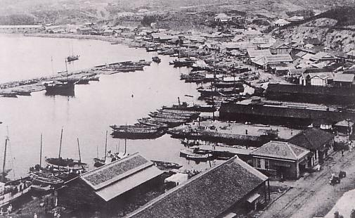 Port of Seishin(Cheongjin)